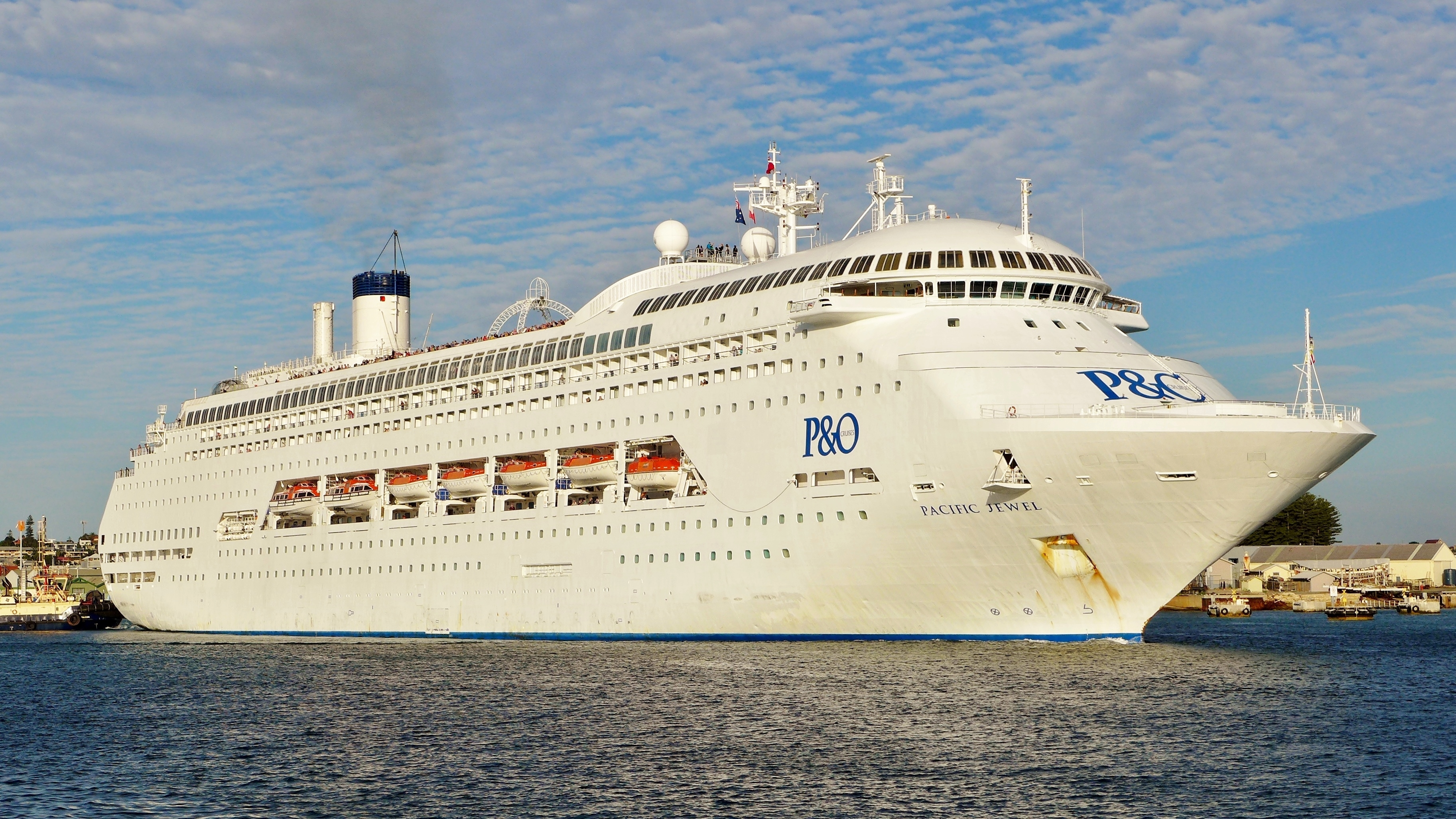 Cruise ship Pacific Jewel departing from Fremantle Harbour, Western Australia, with cruise J518 "Indonesian Adventure" to Lombok, Bali, Komodo and return.